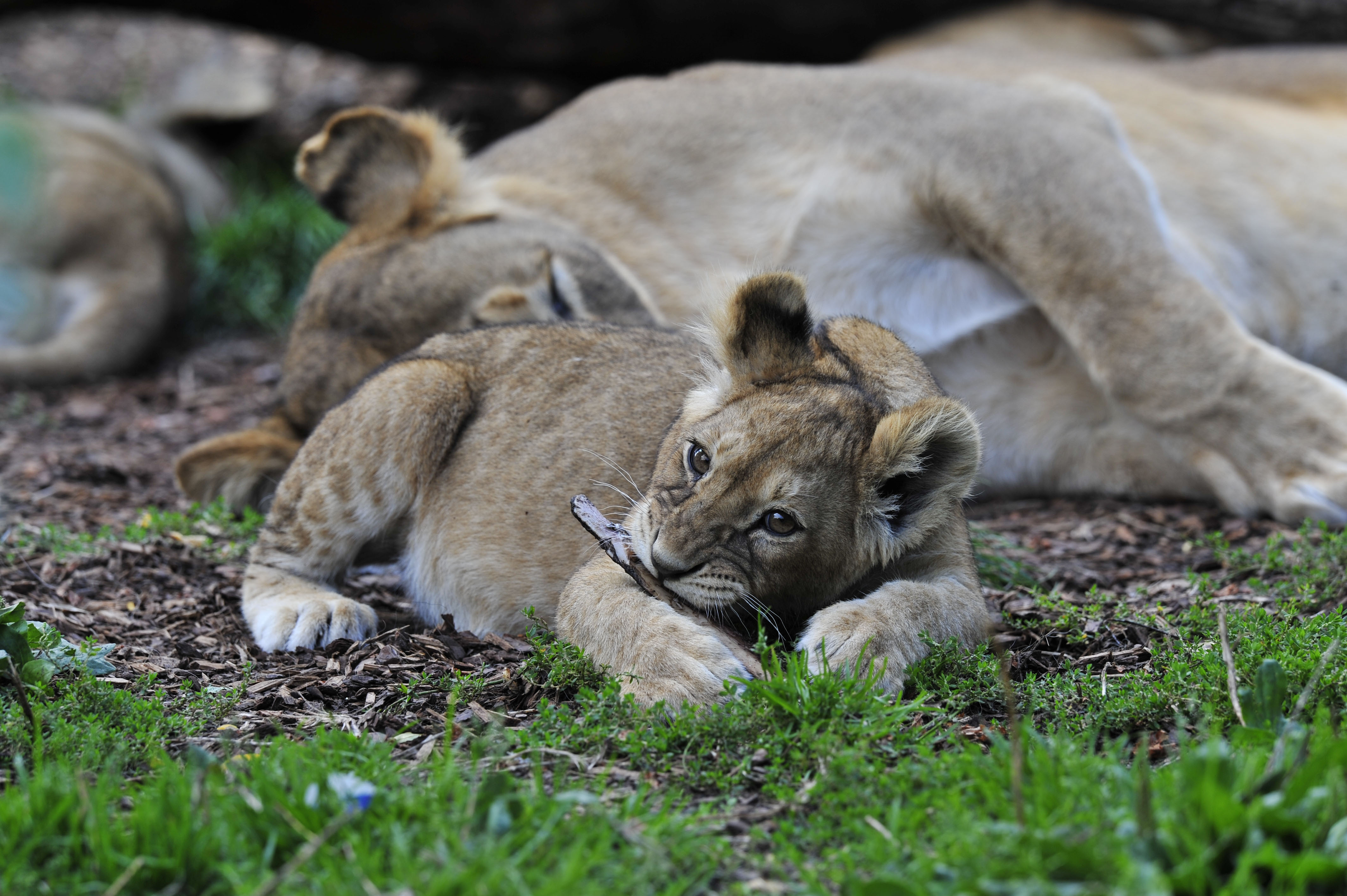 A lion cub chewing on a piece of bark and its mother